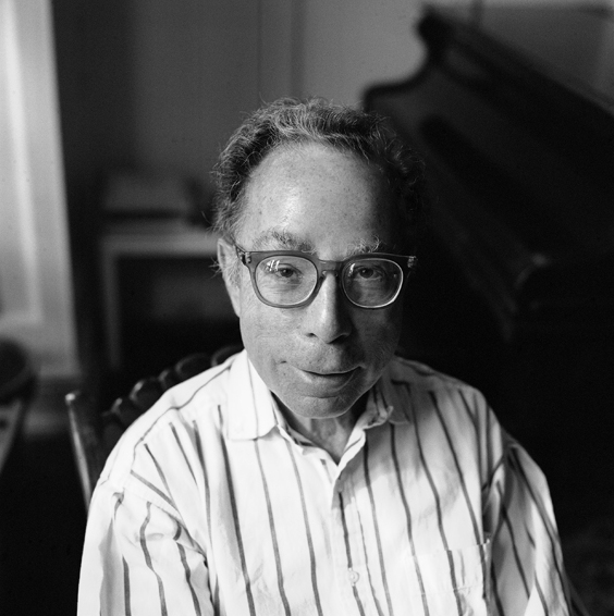 Black and white photograph of Dr. Richard Stang, taken by his wife, Susan Hacker Stang, in St. Louis.